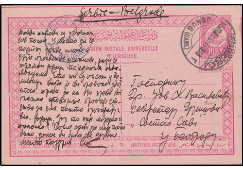 Serbian letter from Skopje